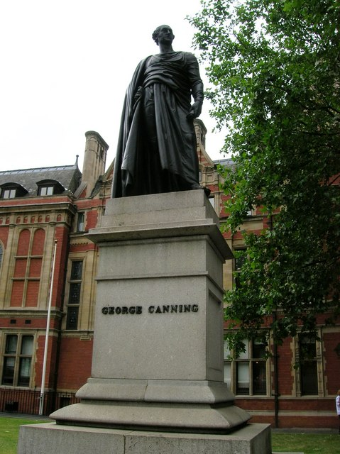 George Canning statue, Parliament Square SW1 George Canning (1770-1827) - Politician and Prime Minister (Apr-Aug 1827)